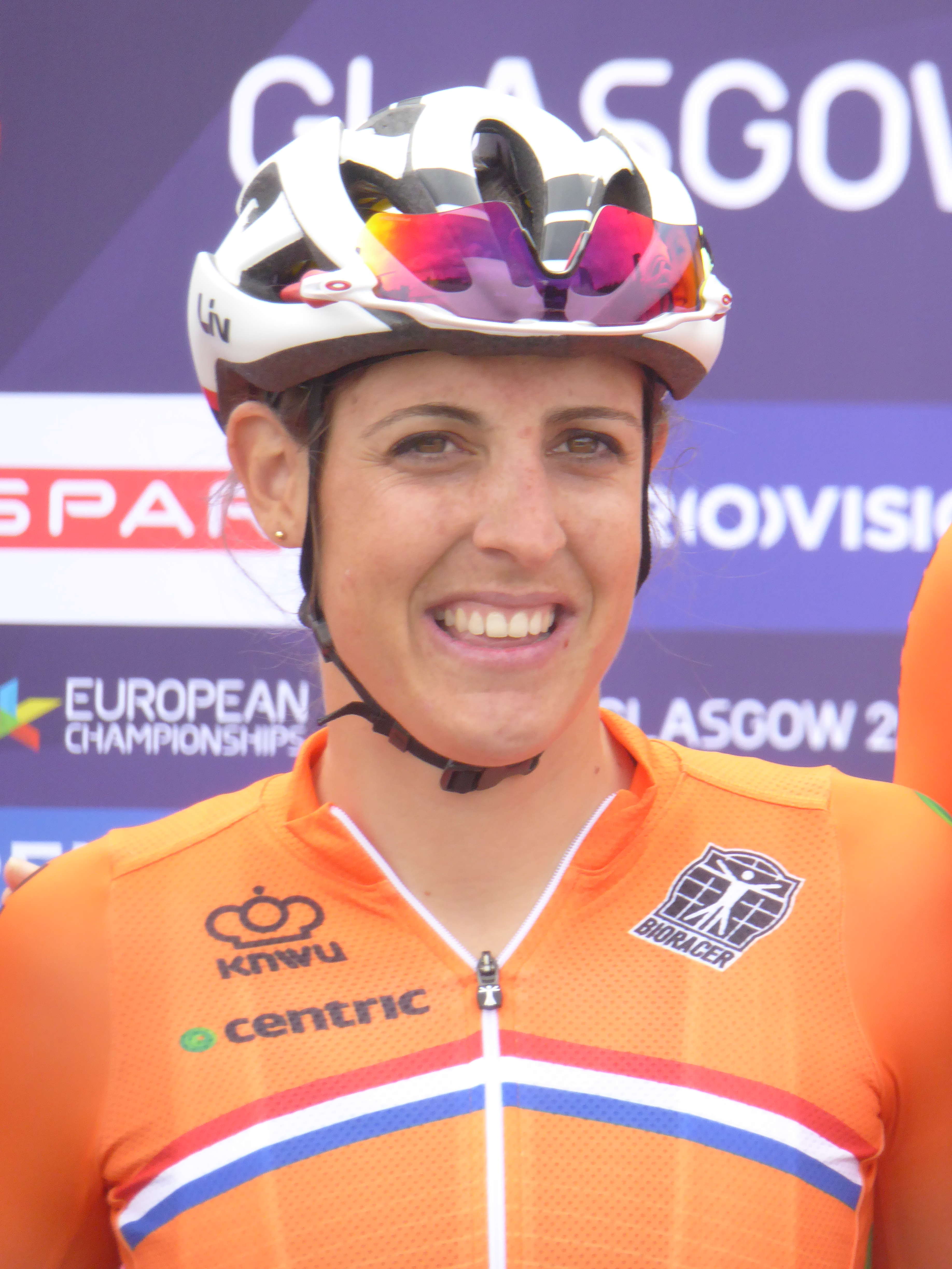 Lucinda Brand (Netherlands), prior to the women's road race at the 2018 UEC European Road Cycling Championships in Glasgow.